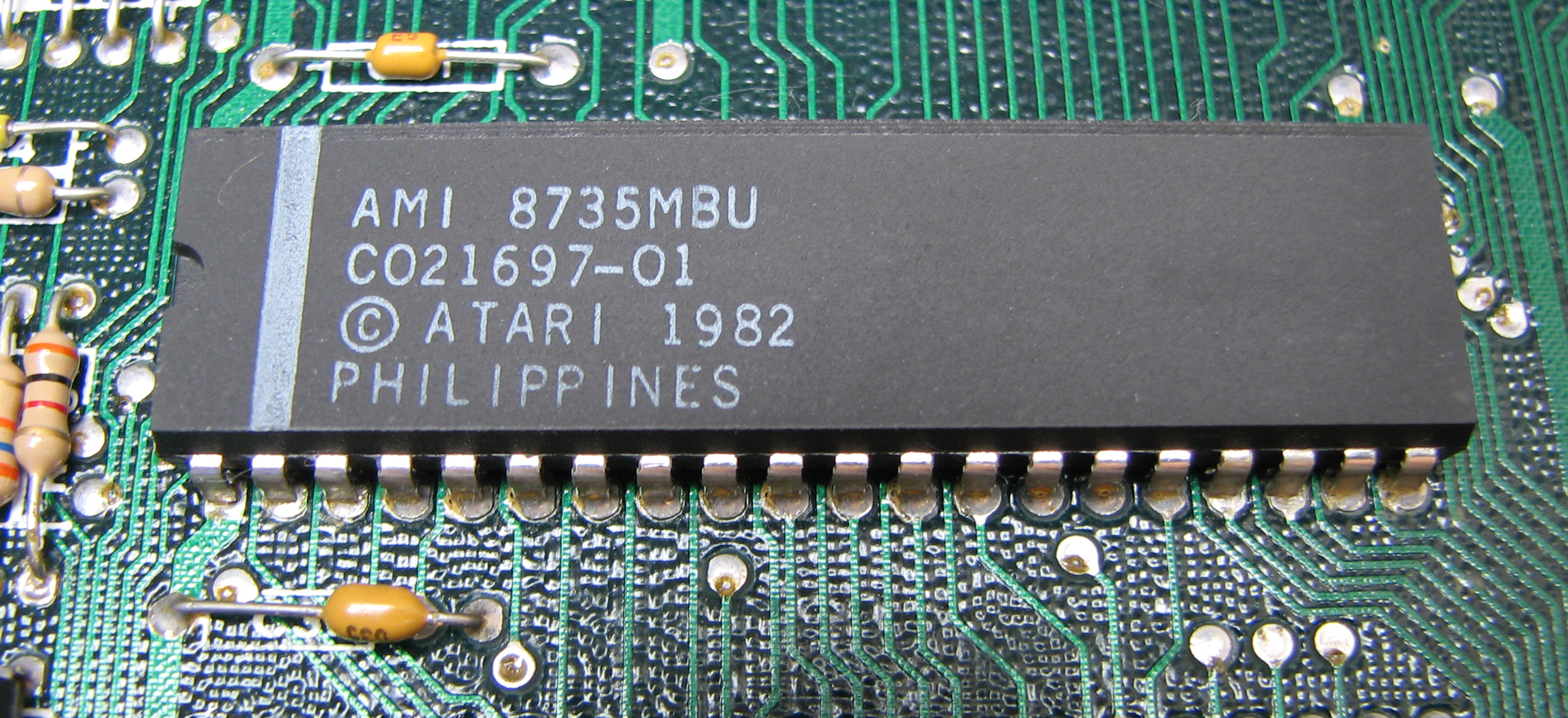 an Atari ANTIC video processing chip on an Atari 130XE motherboard. This particular unit was manufactured by AMI.